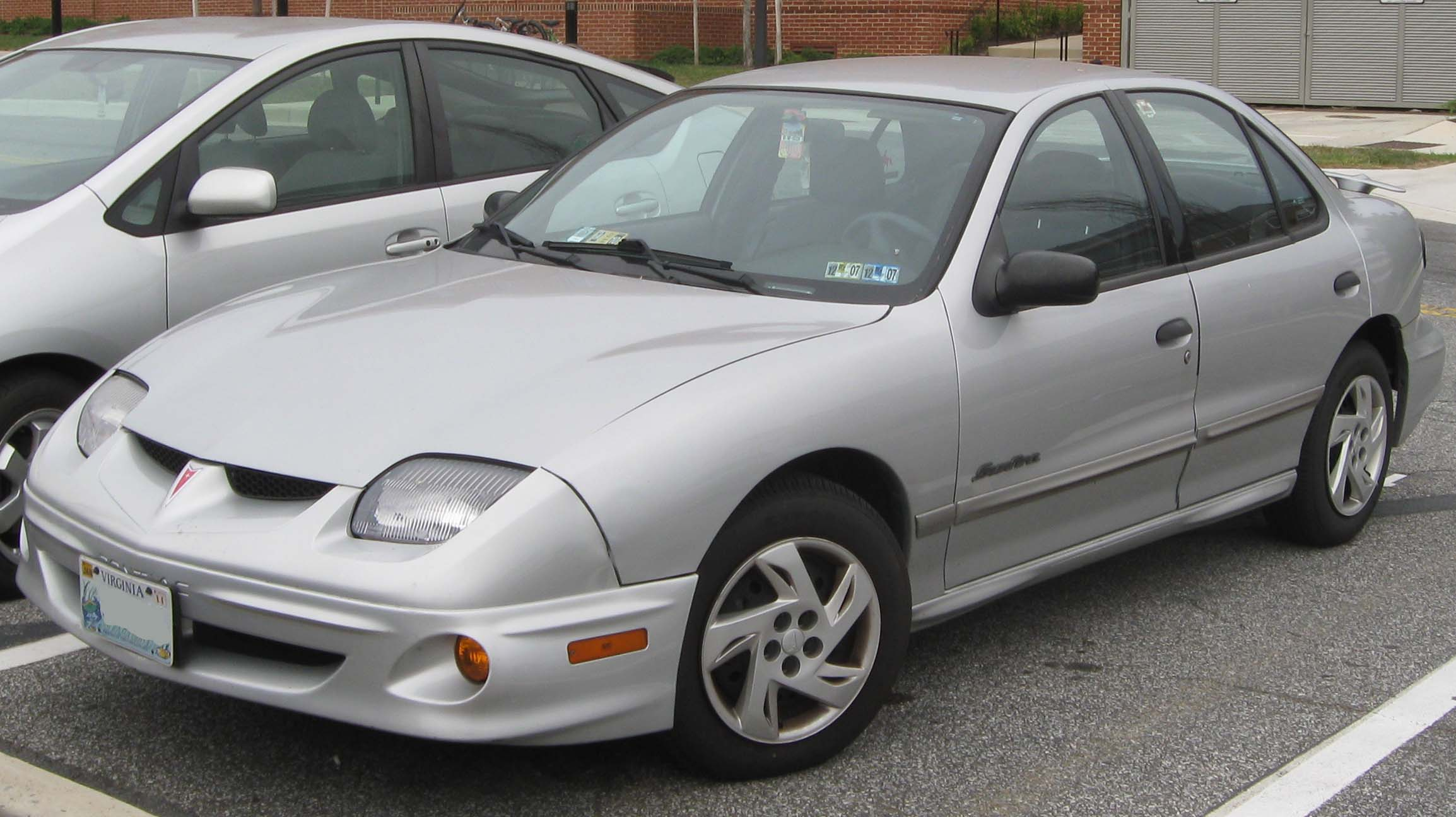 2000-2002 Pontiac Sunfire photographed in College Park, Maryland, USA.